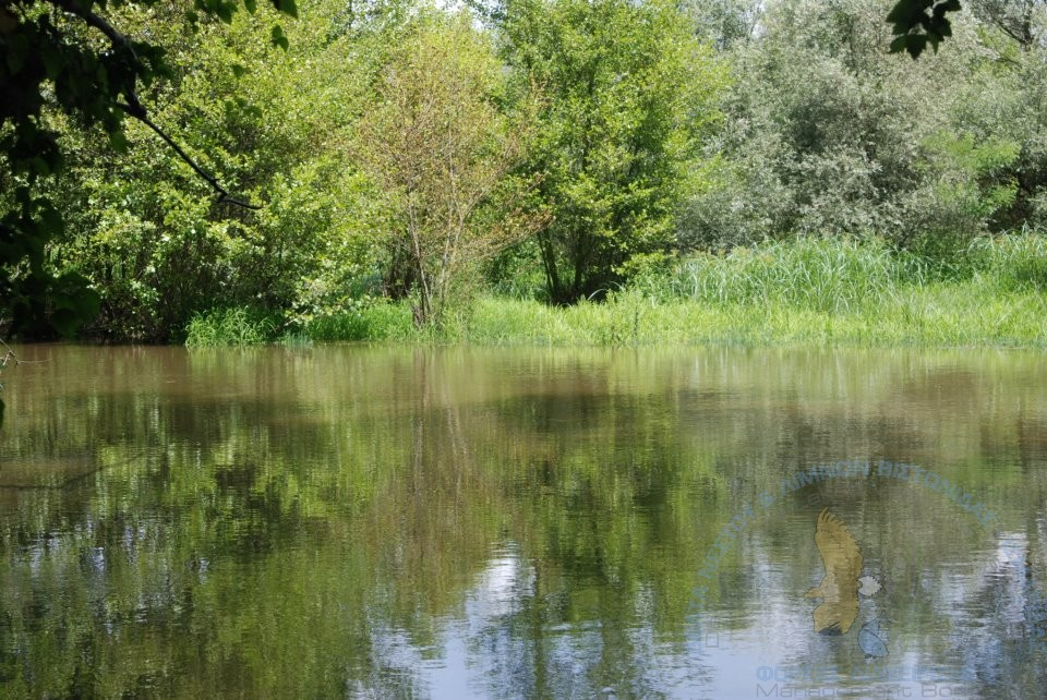 Delta of river Mesta (Nestos), Thrace, Greece